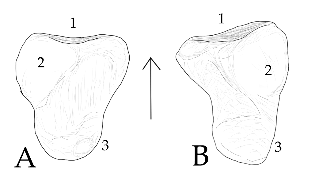 The calcaneum (heel bone) of two different aphanosaurs (basal avemetatarsalians). Seen in dorsal (top-down) view, with a large arrow indicating the anterior direction (pointing to the head). A: Left calcaneum of Yarasuchus deccanensis. B: Right calcaneum of Teleocrater rhadinus (NMT RB490). 1: Concave articular socket for the astragalus. 2: Convex articular surface for the fibula. 3: Calcaneal tuber.